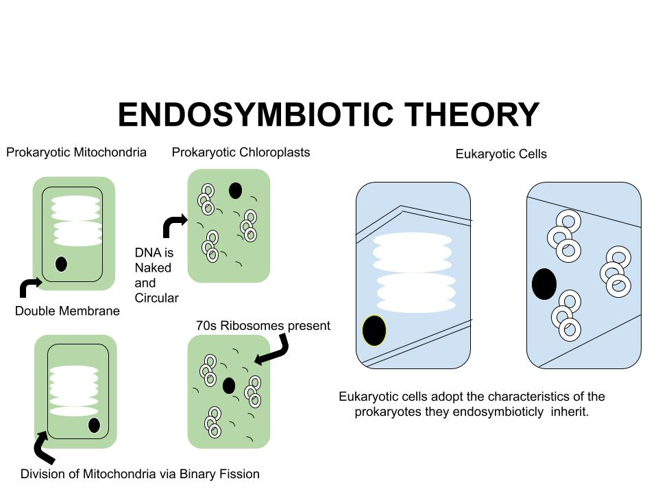 Visual representation of how, during the Endosymbiotic process, a Eukaryotic cell has evidenced its inheritance of its taken in prokaryotic cells characteristics